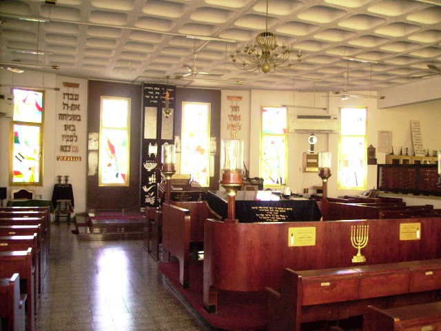 Munkatcher synagogue in Petah Tikva